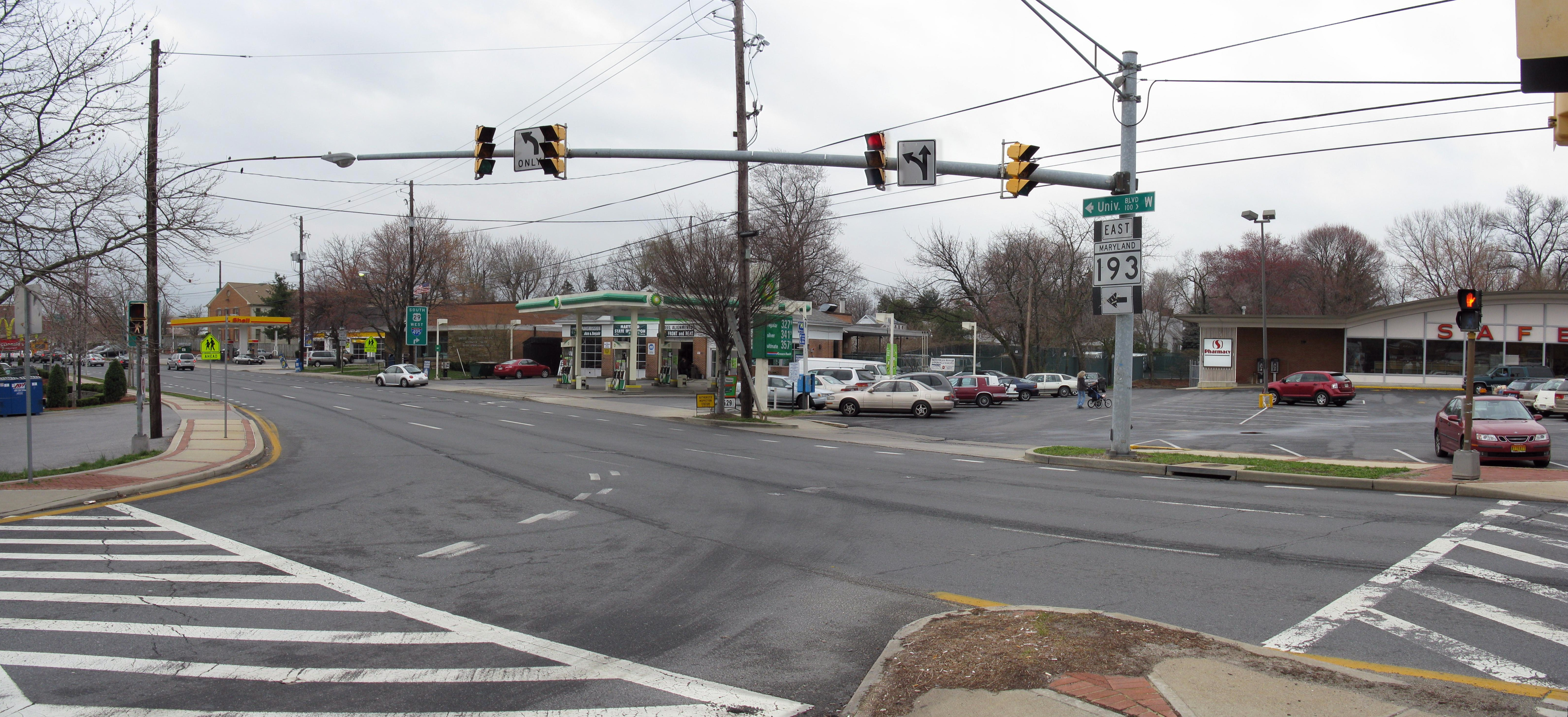 Traffic signal at the intersection of MD 193 and the western turnaround, Four Corners, MD.